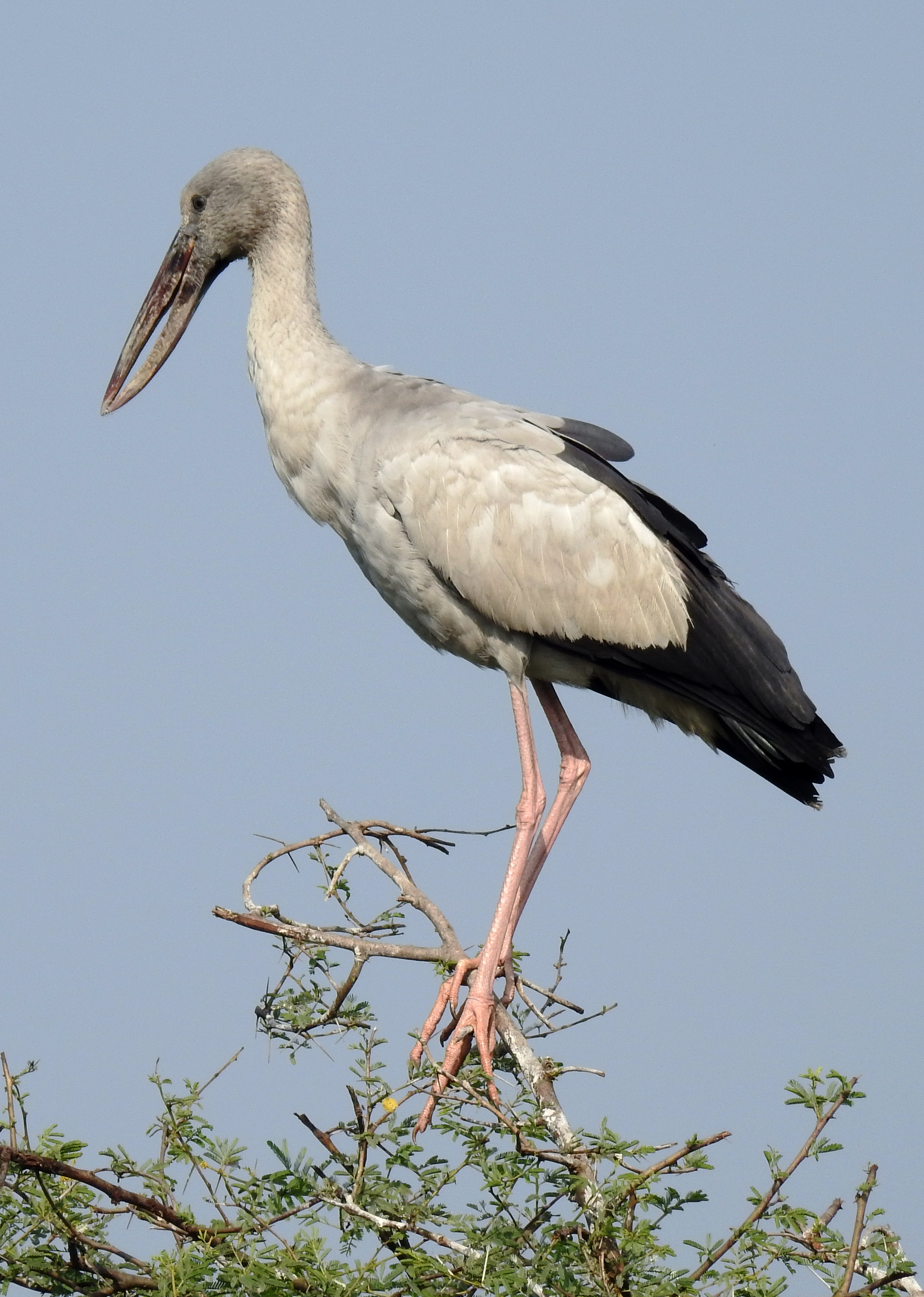 Asian Openbill Anastomus oscitans by Dr. Raju Kasambe. Photographed at Keoladeo National Park, Bharatpur, Rajasthan, India.